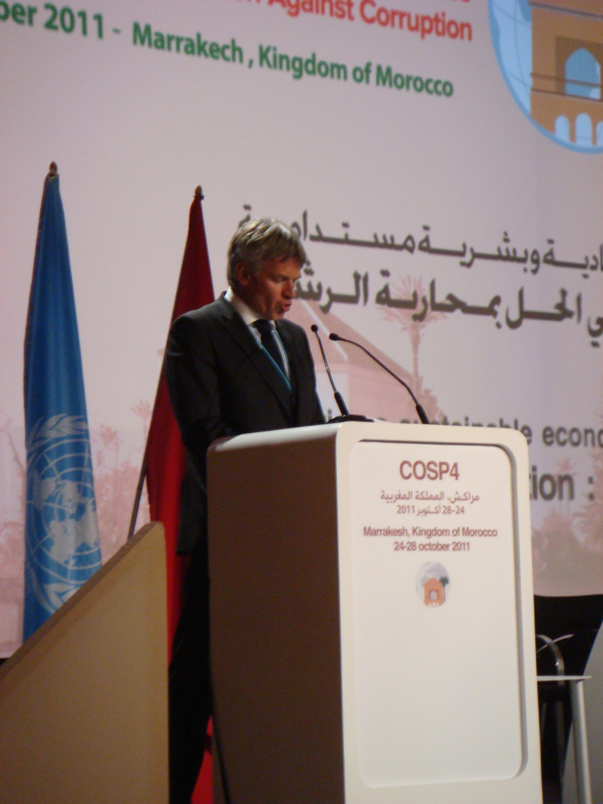 Olivier Weber, ambassadeur